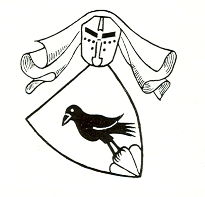 Wappen der Herren von Kropfenstein. Note that the image indicated as the "Kropfenstein Wappen" is the coat of arms of the family Mötteli von Rappenstein, which owned/married into families that owned nearby castles, Neuenberg and Rappenstein near Landquart in the Canton of Graubunden, Switzerland. This family also owned Schloss Arbon, Sulzberg (Möttelischloss), Altstetten (Prestegg), Güttingen (Moosberg), Hüttingen, Pfyn, Alt-Regensburg, Memmingen, Wellenberg, Weinfelden, Roggwil, and Bürglen, as well as castles in Germany, Italy, in Spain and France, from about 1320 to about 1600.